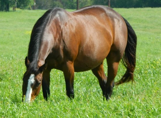 Pregnant Horse